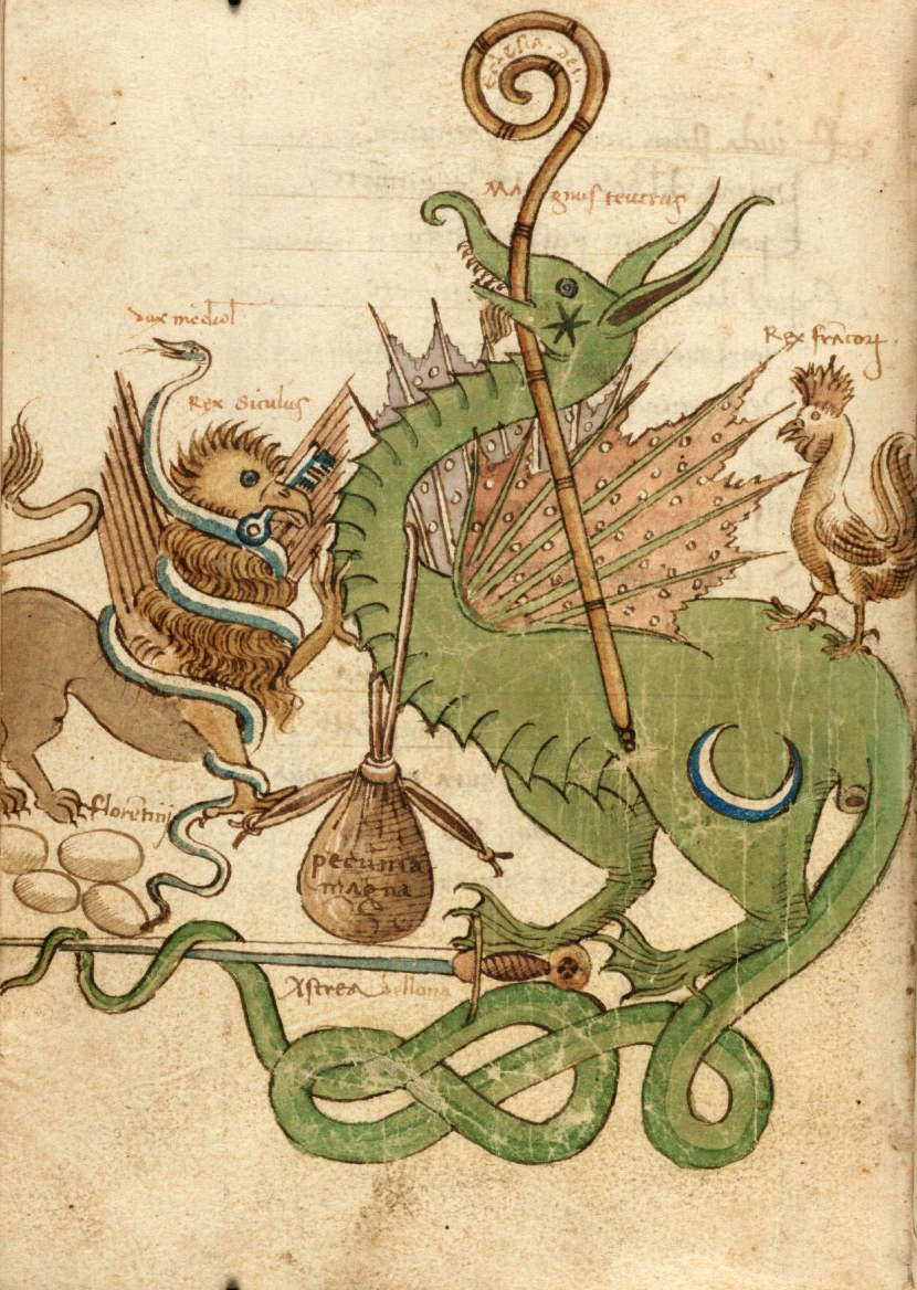 From the manuscript Poems and epistles, 1471-1472, by Felice Feliciano (15th cent). Full manuscript also includes novellas by other authors. Fully digitized at MS Typ 157, Houghton Library, Harvard University